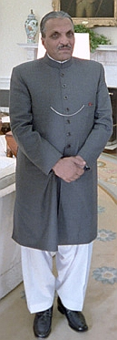 General Muhammad Zia-ul-Haq, Pakistan at the US Oval Office on 7 December 1982.